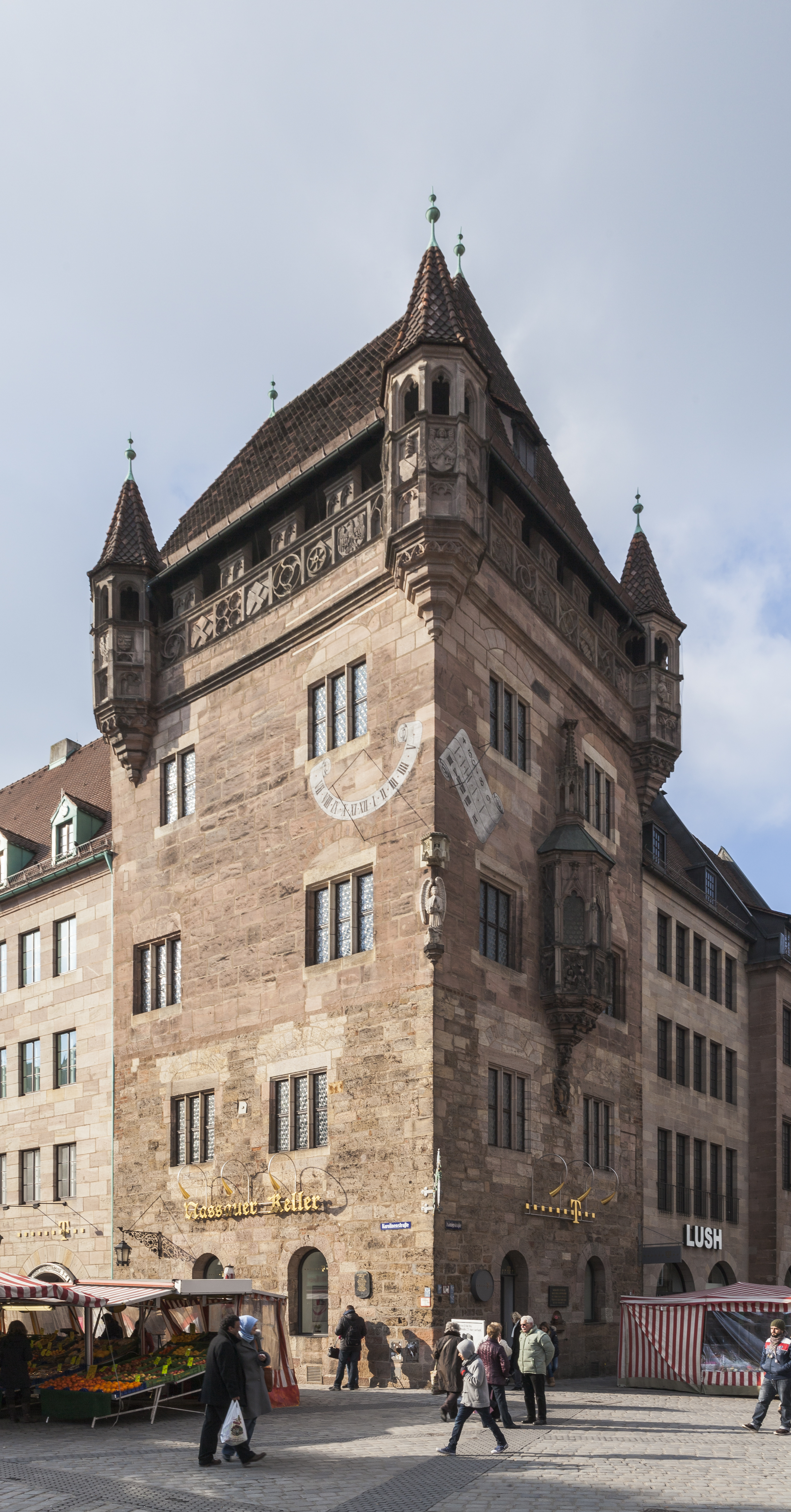 Nassauer Haus, Nuremberg, Germany